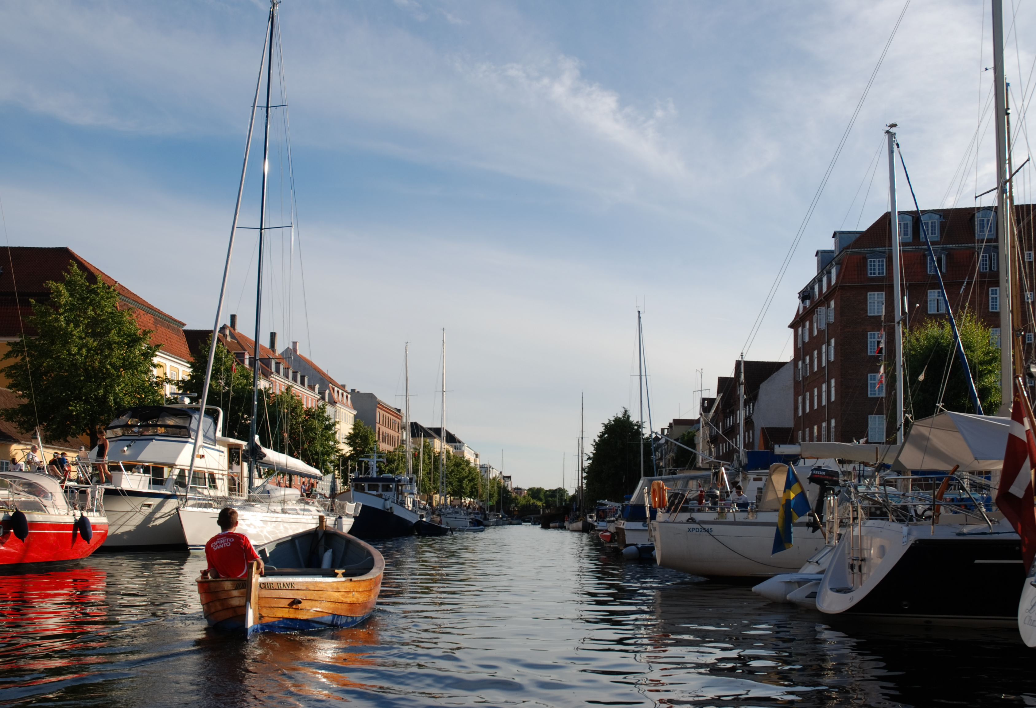 Christianshavns Kanal in Copenhagen, Denmark (July 2013).